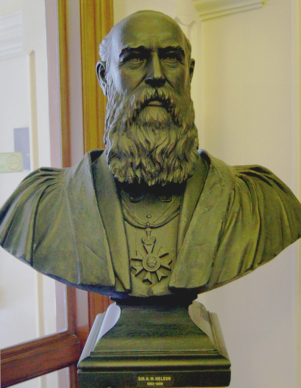 Bronze Bust of Sir Hugh M. Nelson held at Queensland Parliament by sculptor James Laurence Watts